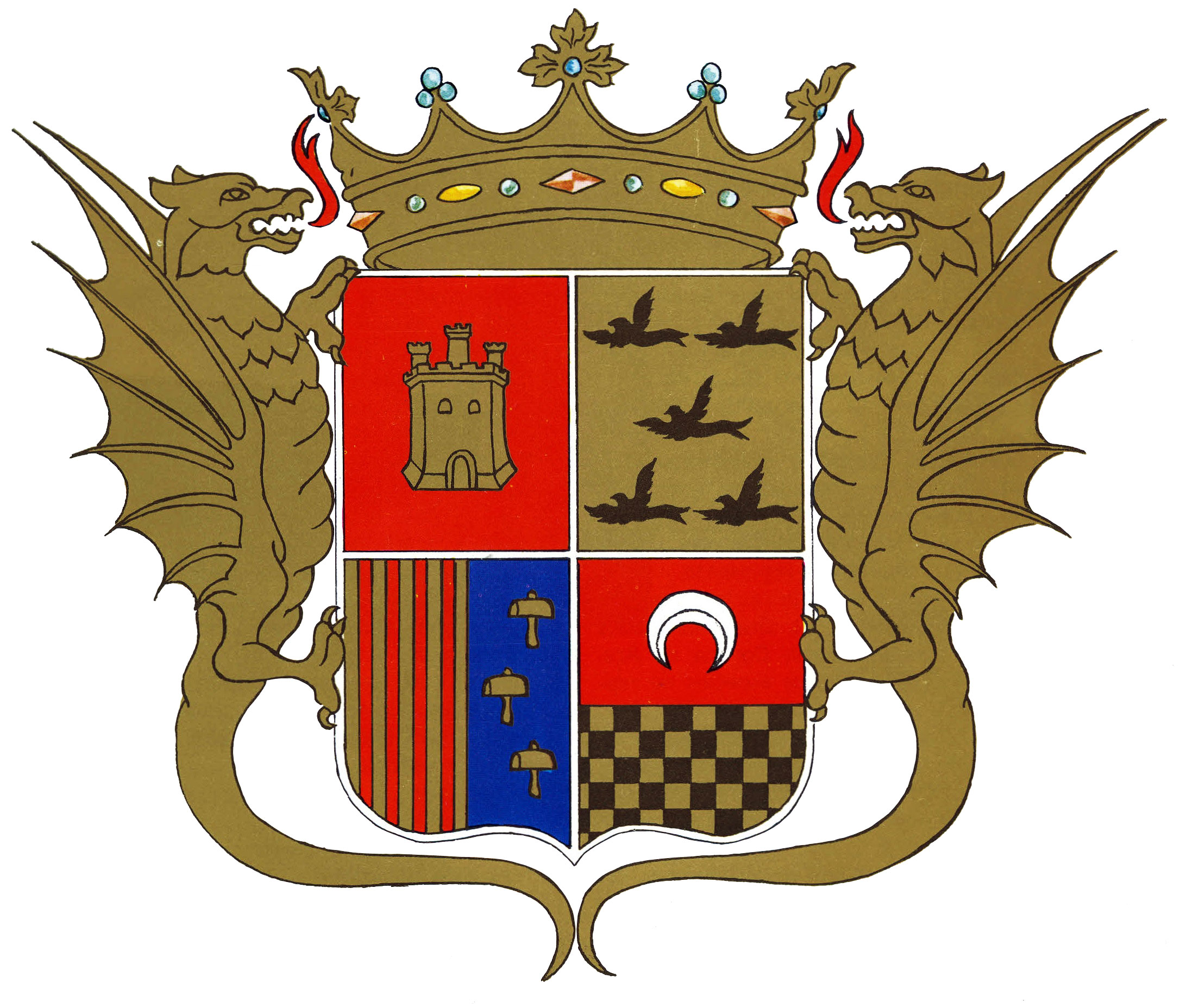 Coat of arms of Novelda (Valencian Community, Spain)